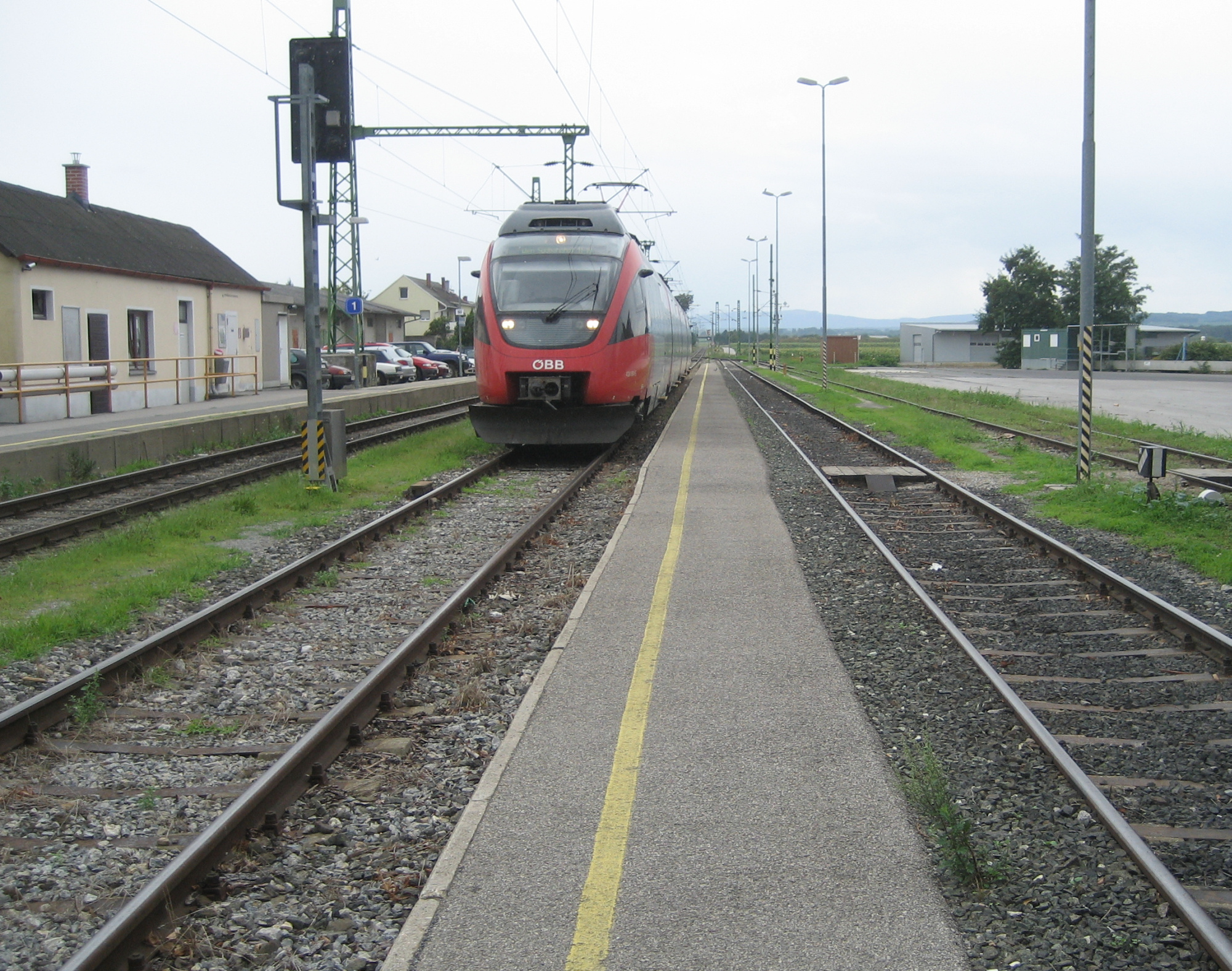 Deutschkreutz train station in Burgenland, Austria